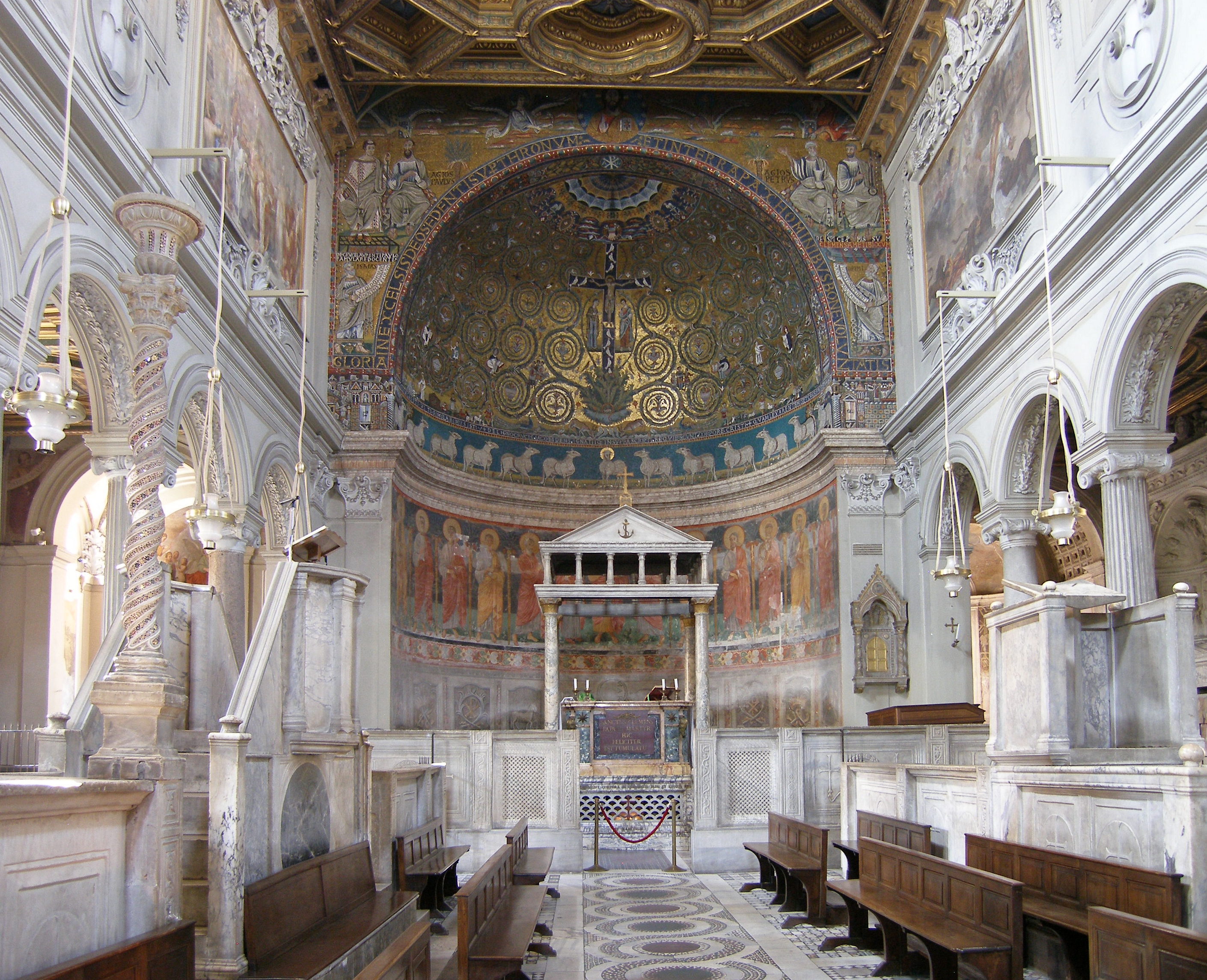 Interior of the Basilica di San Clemente, Rome, Italy.